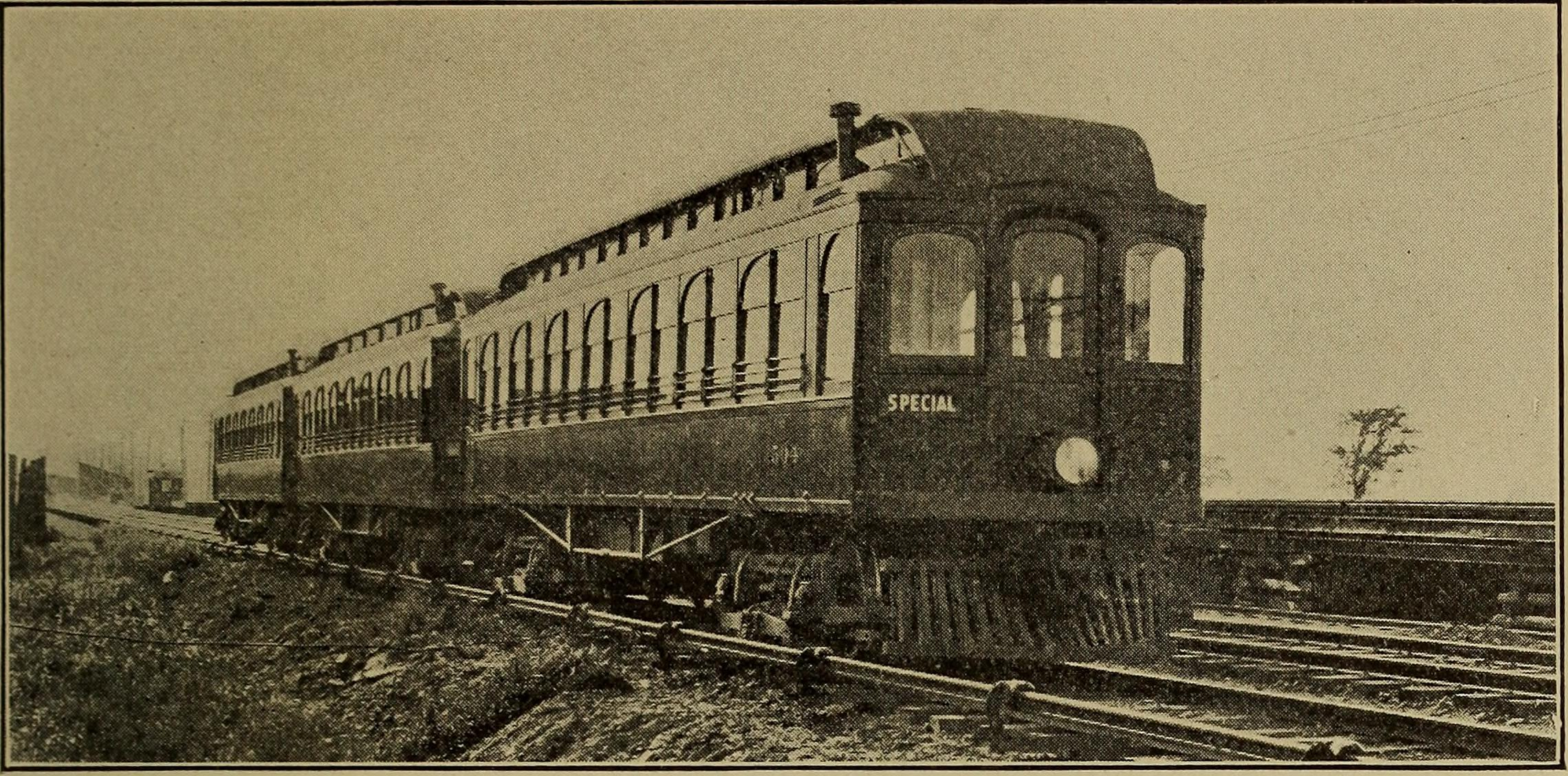 Title: Electric traction for railway trains; a book for students, electrical and mechanical engineers, superintendents of motive power and others .. Year: 1911 (1910s) Authors: Burch, Edward P. (Edward Parris), 1870-1945 Subjects: Railroads Publisher: New York (etc.) McGraw-Hill Book Company Text Appearing Before Image: Fig. 56.—Motor-car Truck used by West Jersey & Seashore Railroad.Baldvvin truck and General Electric 240-h. p. motors. a. Design of electric motors decreases strains and pounding. b. Control circuits prevent accidents. c. Automatic devices on controller safeguard operation. MOTOR-CAR TRAINS 233 d. Speed is increased with safety, by the design of motors.Speed may be limited by design or by control devices, e. Wheel bases which are long and rigid are avoided. Text Appearing After Image: Fig. 57.—West Shore Railroad Three-car Train.Third-rail road, Syracuse to Utica, N. Y. f. Tests of equipment are facilitated and are rigid. g. Regeneration of energy in braking prevents accidents,h. Air brakes are used in tunnels with safety.